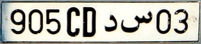 Diplomatic corps (CD) license plate, Tunisia